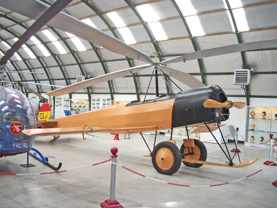 Cierva C-6 autogiro, taken in "Museo del Aire", Cuatro Vientos, Madrid, Spain. I am the author of this picture, and I would like for everybody to be able to see it freely on Wikipedia.